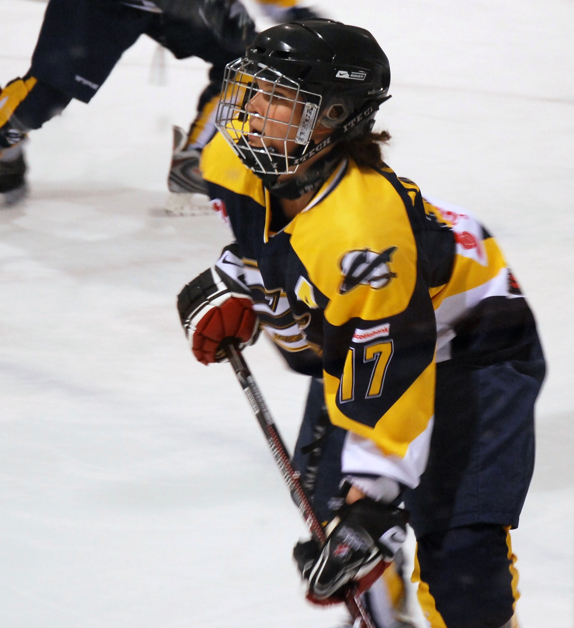 Pictures from Ottawa Senators games during the 2008/09 CWHL season